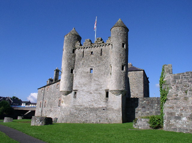 The Watergate at Enniskillen Castle